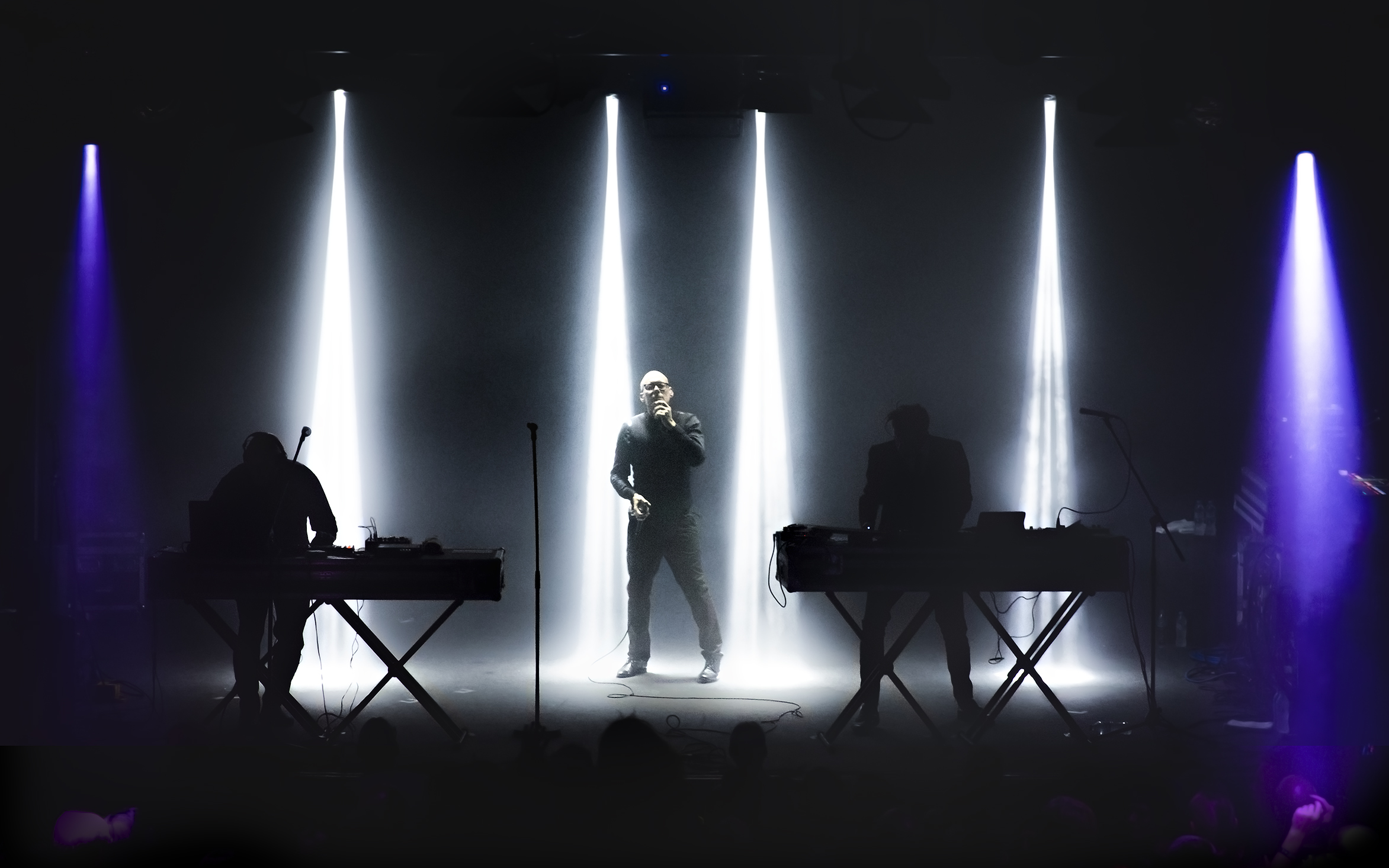 Covenant as headliner of the "Call The Ship To Port"-event, Amphi-Festival, Cologne, 2018